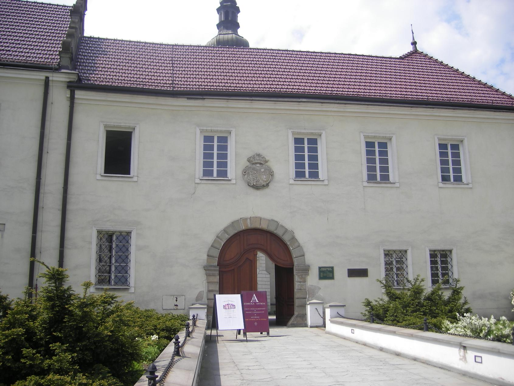 Palace / Beskids' Museum in Frýdek